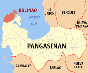 Map of Pangasinan showing the location of Bolinao